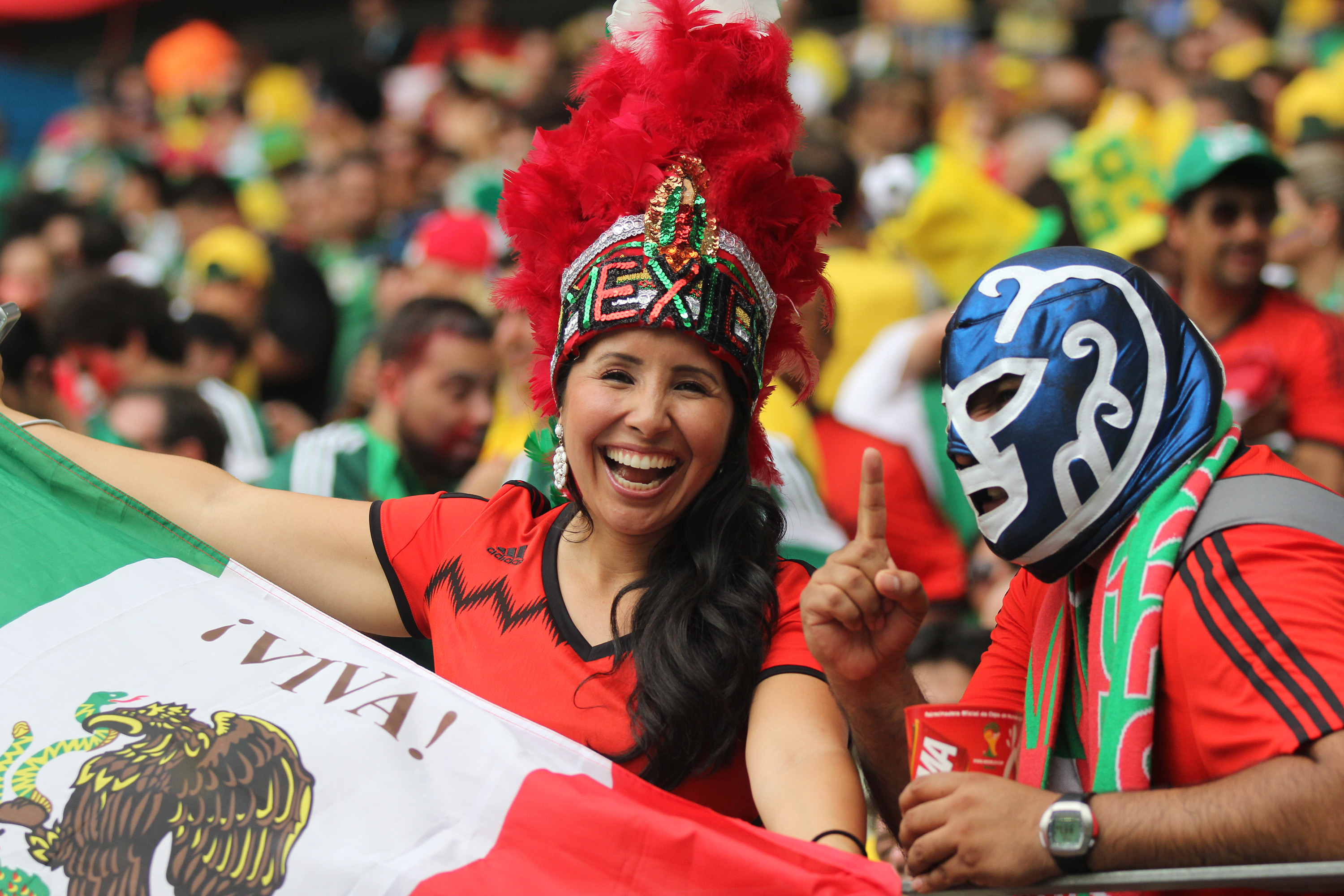 Brazil and Mexico match at the FIFA World Cup 2014-06-17